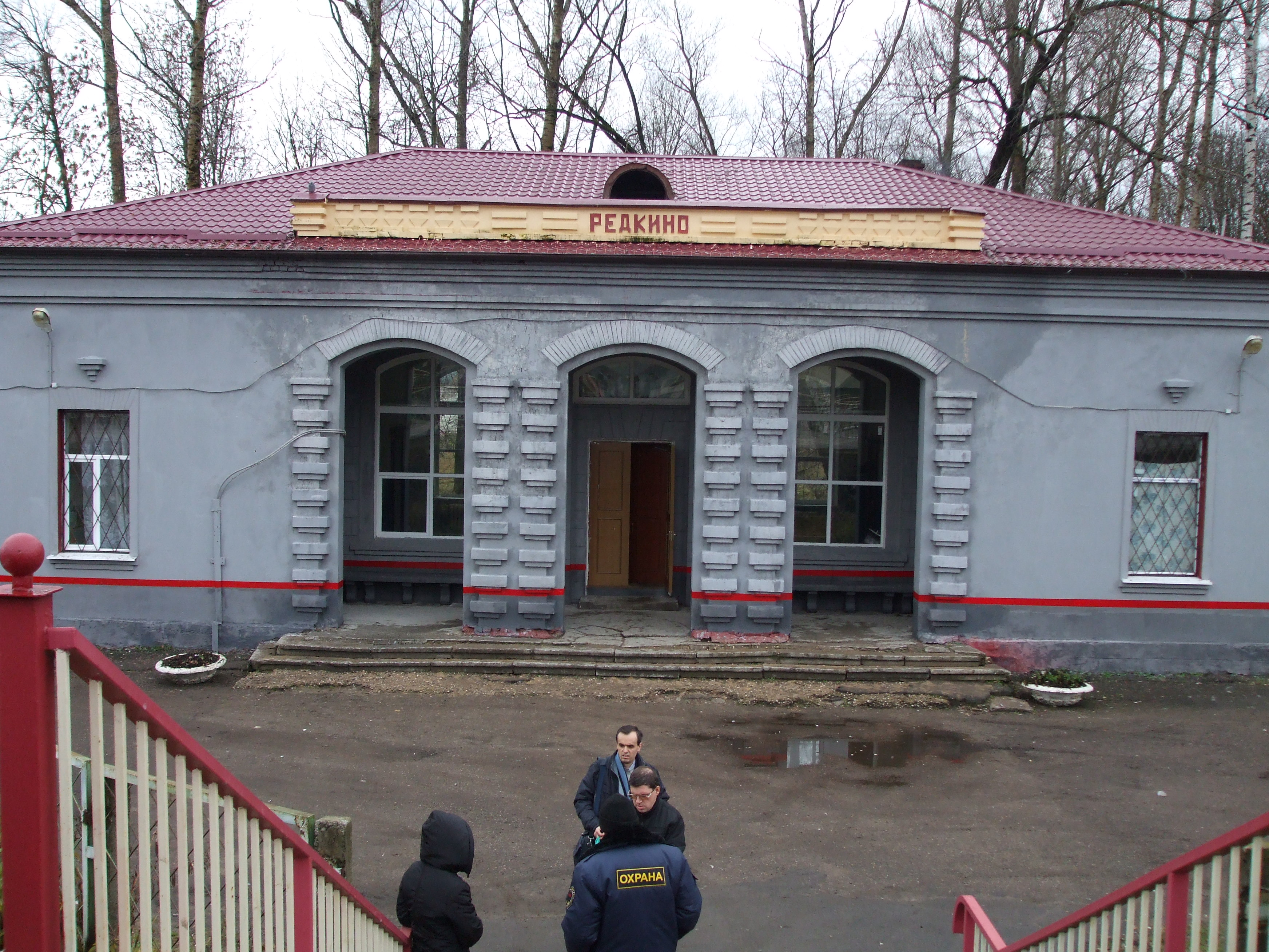 Redkino train station, Tver oblast